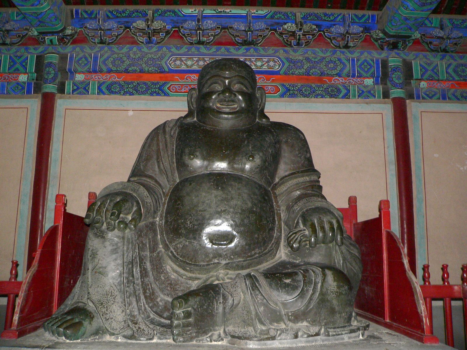 Statue of Budai in the Temple of Azure Clouds